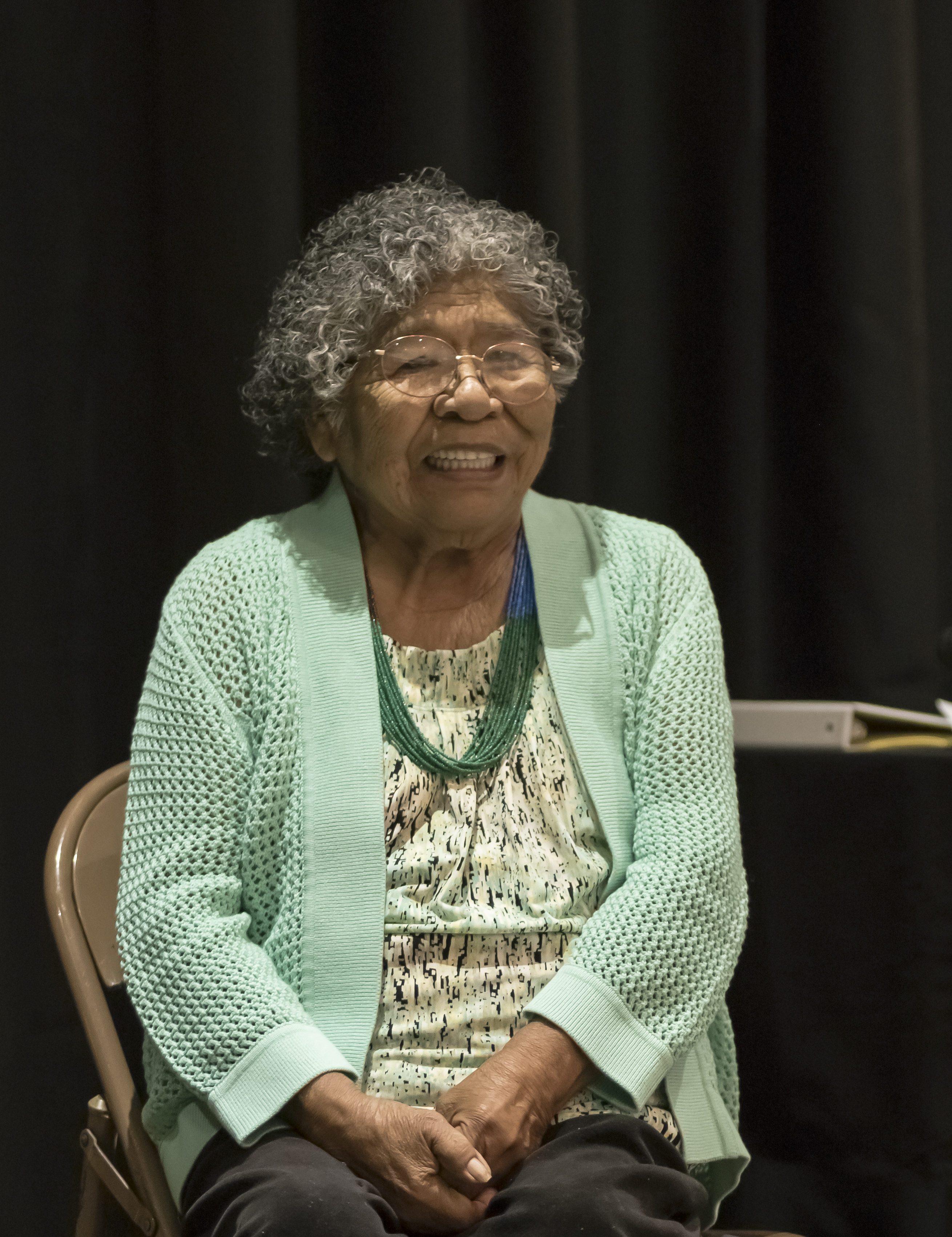 Marie Wilcox receives "Lifetime Achievement Award"